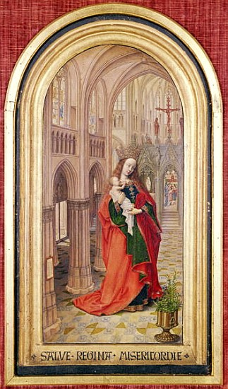 Virgin and Child, left wing of a diptych